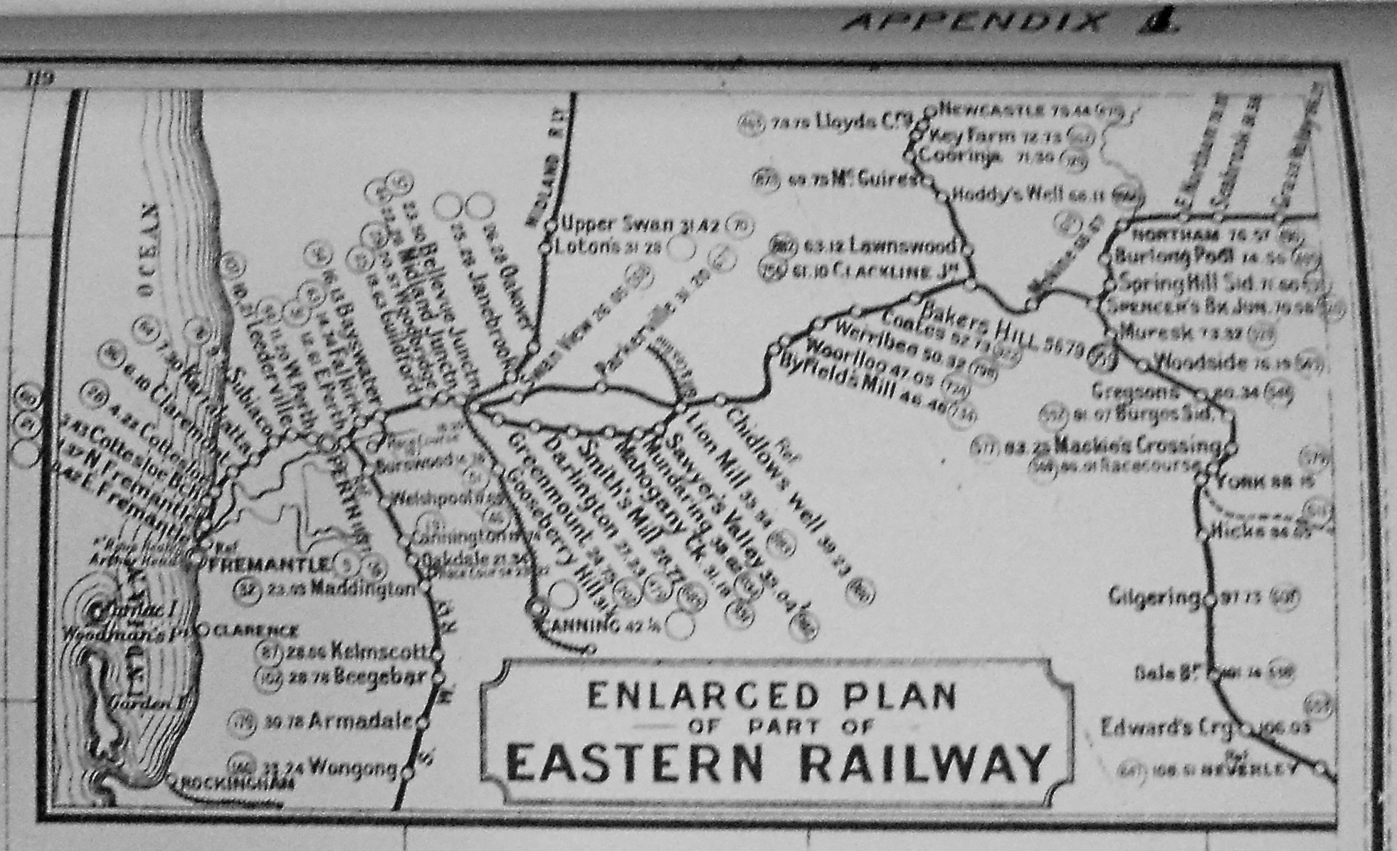 The Eastern Railway in Western Australia - from 1897 annual report - prior to Mundaring Weir branch being created